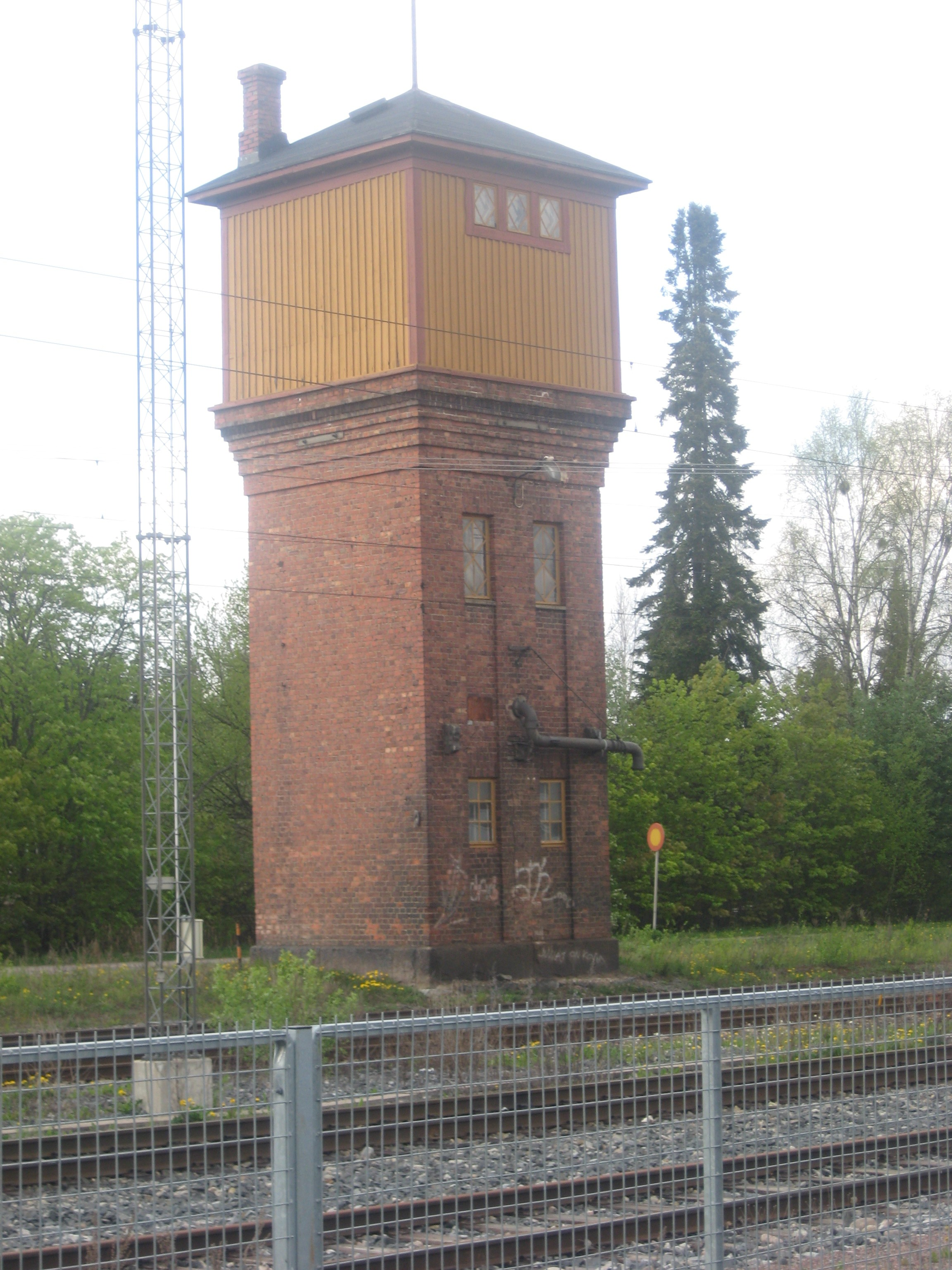 Old railways water tower in Loimaa, Finland.